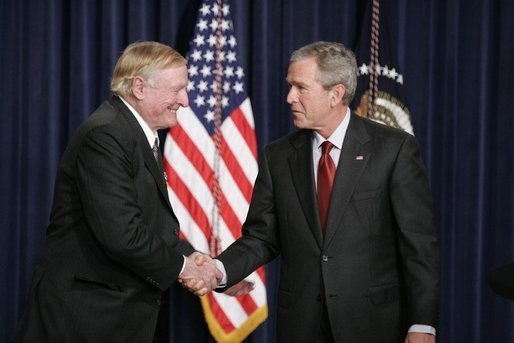 President George W. Bush shakes hands with William F. Buckley, Jr., Thursday, Oct. 6, 2005 at the Eisenhower Executive Office Building in Washington, to honor the 50th anniversary of National Review magazine, which was founded by Buckley, and to recognize Buckley's upcoming 80th birthday. White House photo by Paul Morse